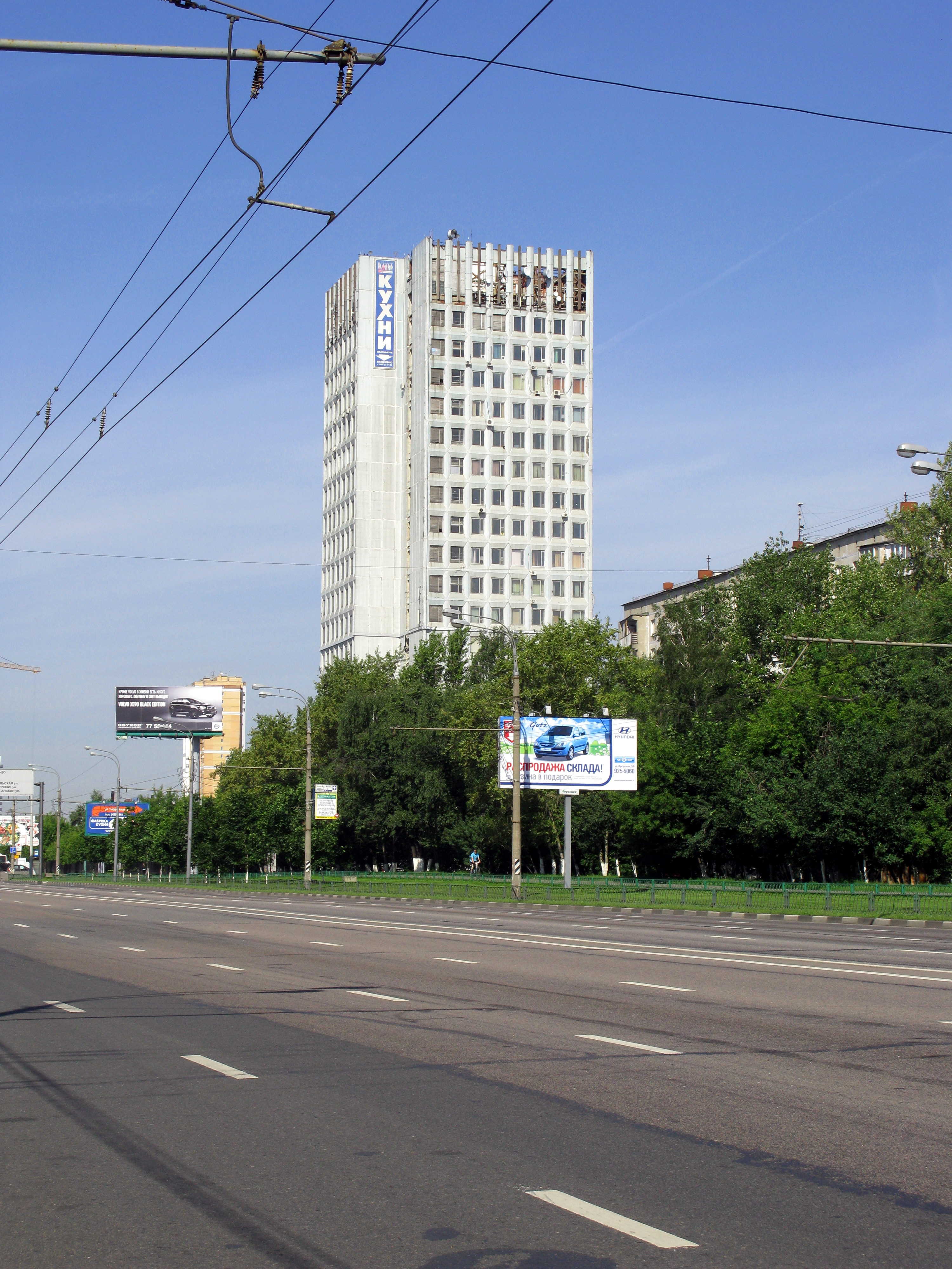 Central Scientific Research Institute «Cyclone» (Moscow, Schelkovskoe shosse, 77)